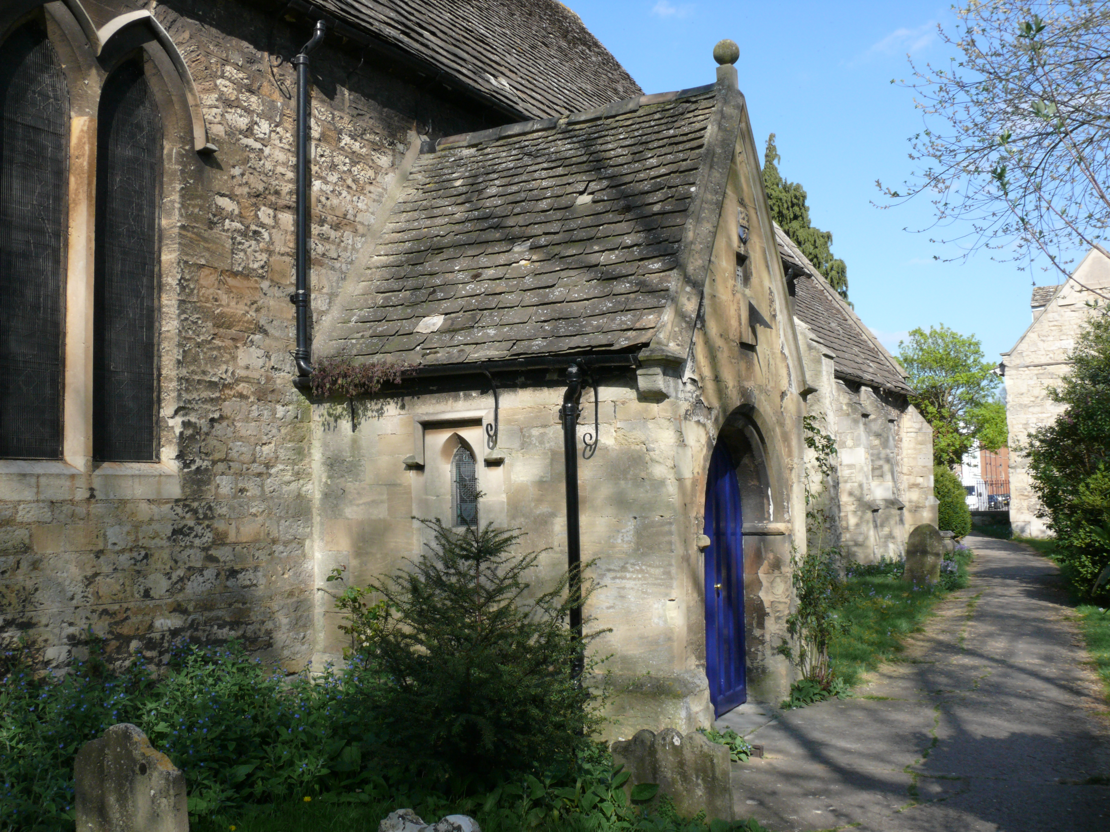 The south wall of St Thomas the Martyr's Church; the south porch is visible